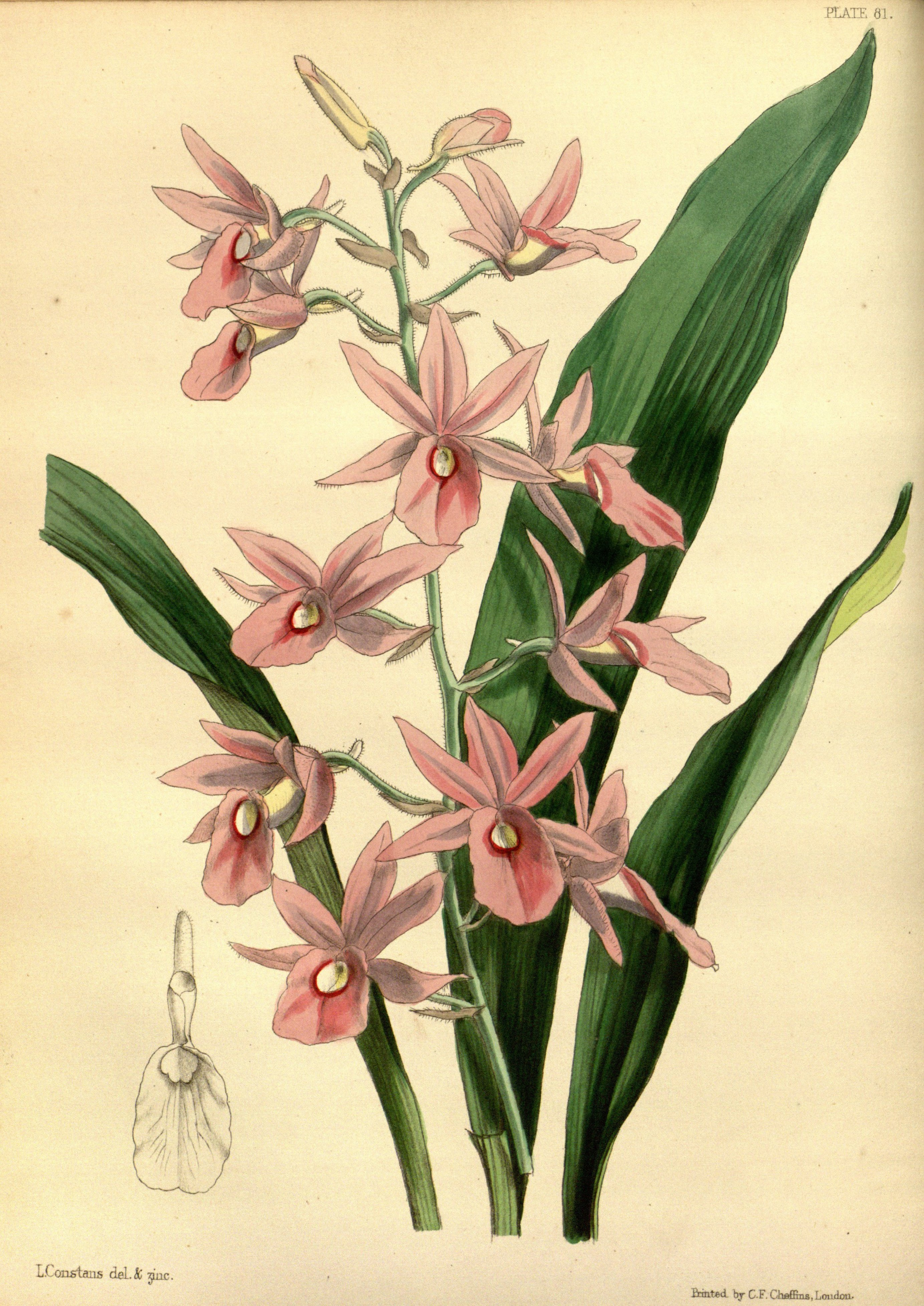 Illustration of Calanthe rosea (as syn. Limatodis rosea, spelled by Lindley as Limatodes rosea)